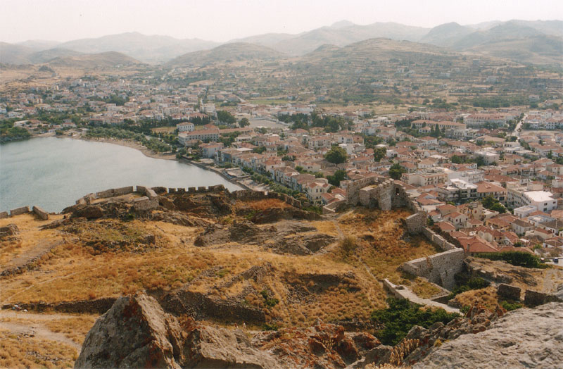 View on Mirina, main town Limnos isl, Greece.